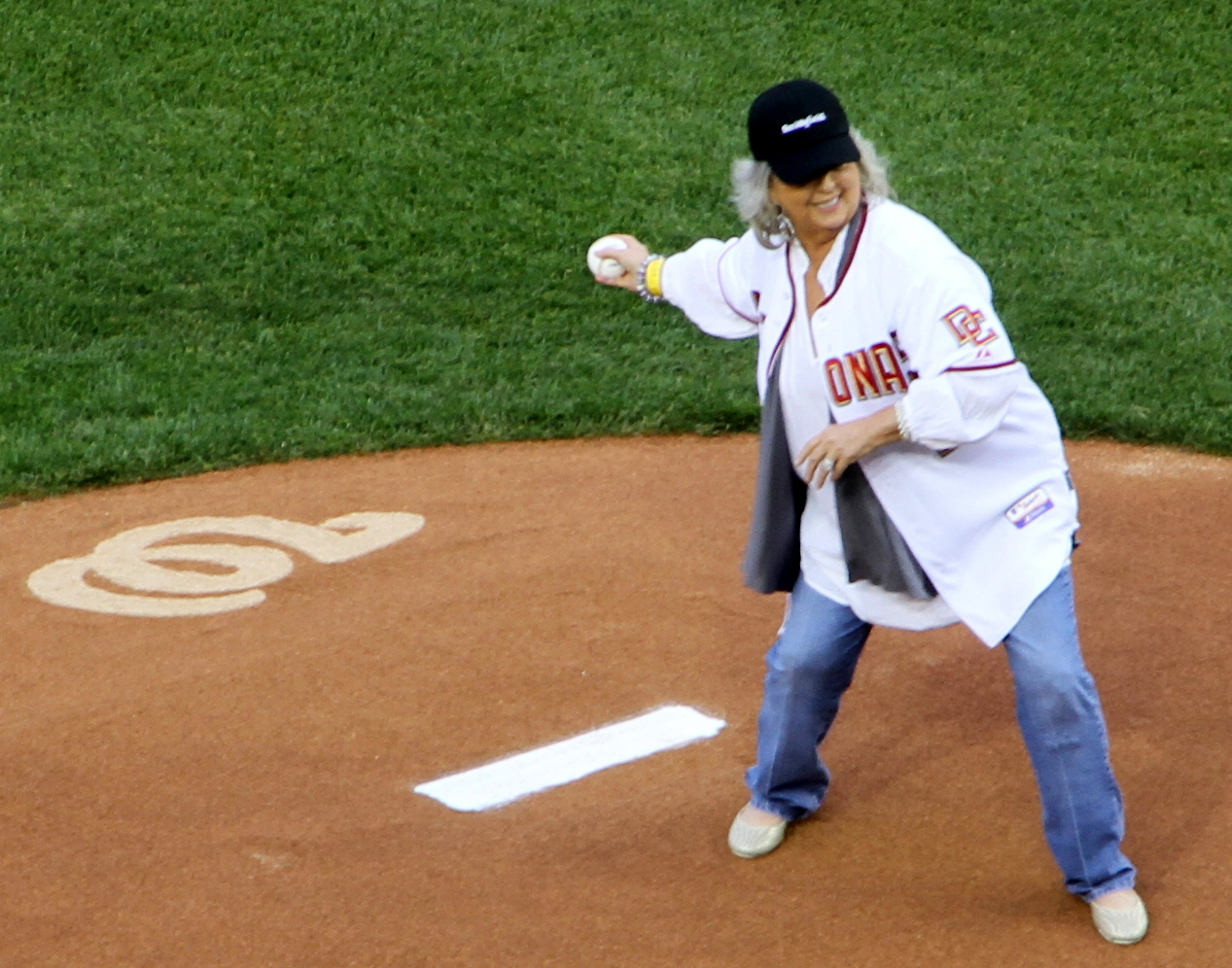 Paula Deen throwing out the first pitch at a Washington Nationals baseball game in Washington, D.C.